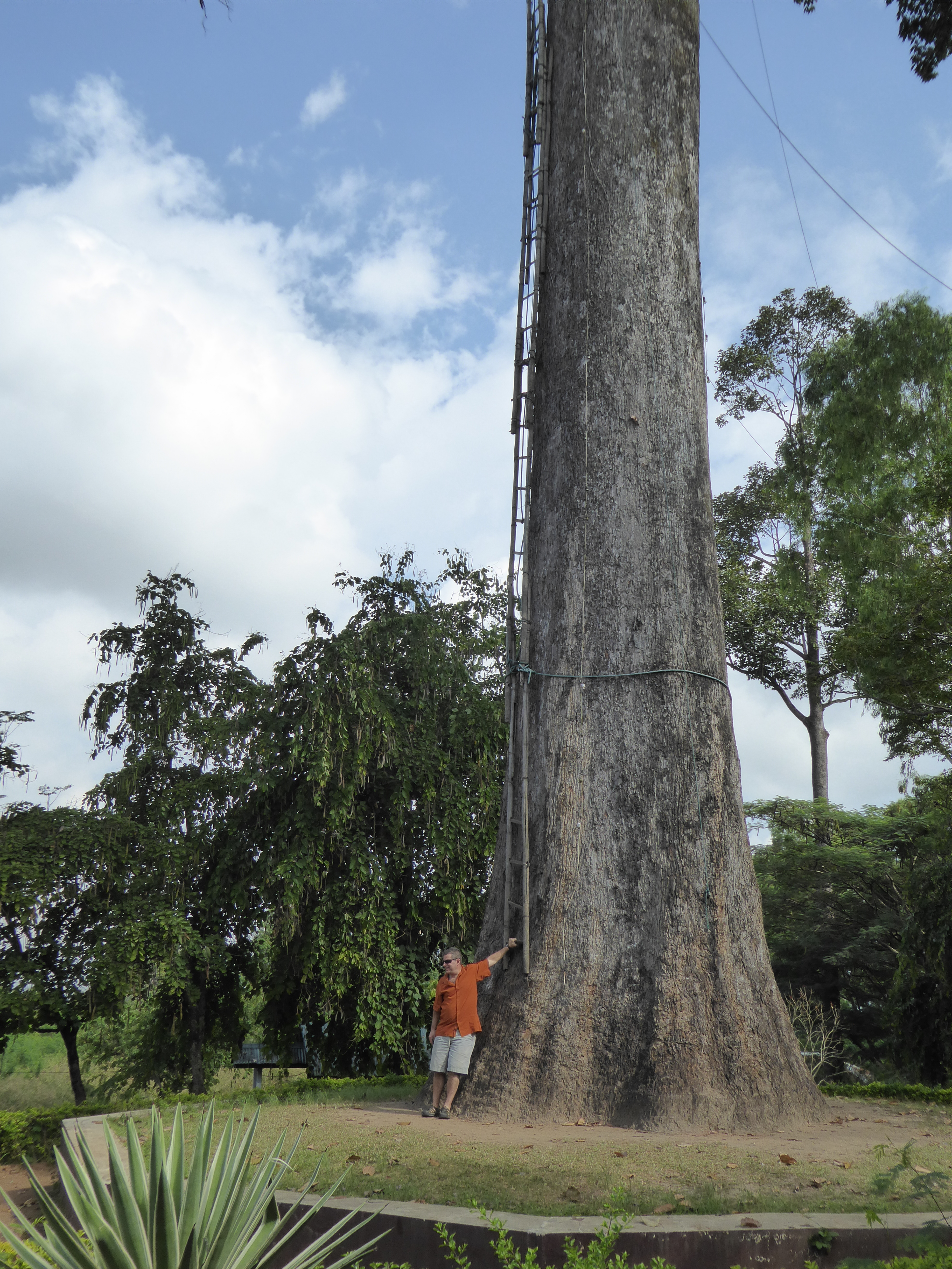 Photo of Diptero carpus alatus in Kentung, Burma taken Nov 2014